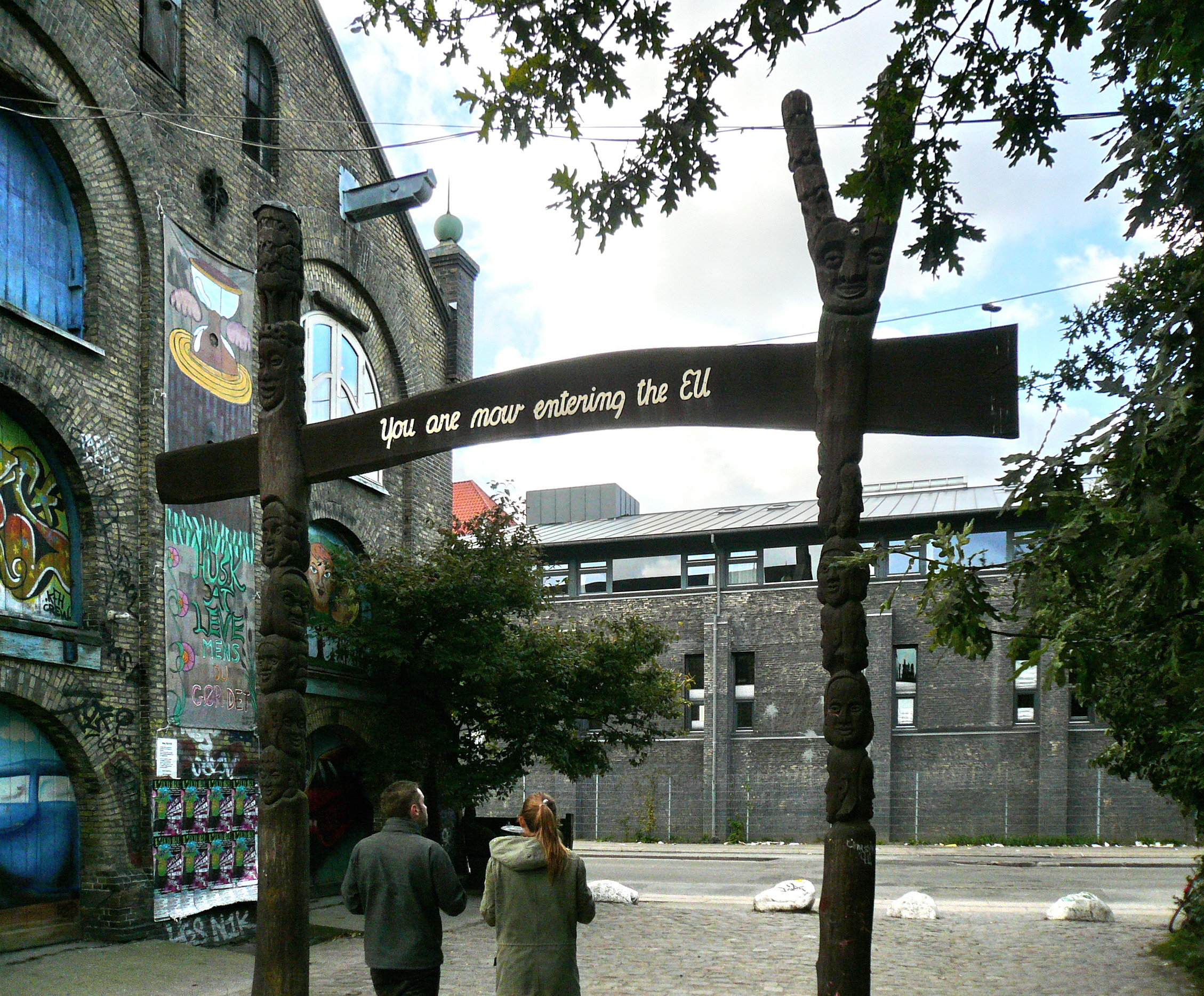 Exit of the free town Christiania in Copenhagen